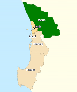 This image incorporates data that is: © Commonwealth of Australia (Australian Electoral Commission) 2009 Division of Pearce 2010